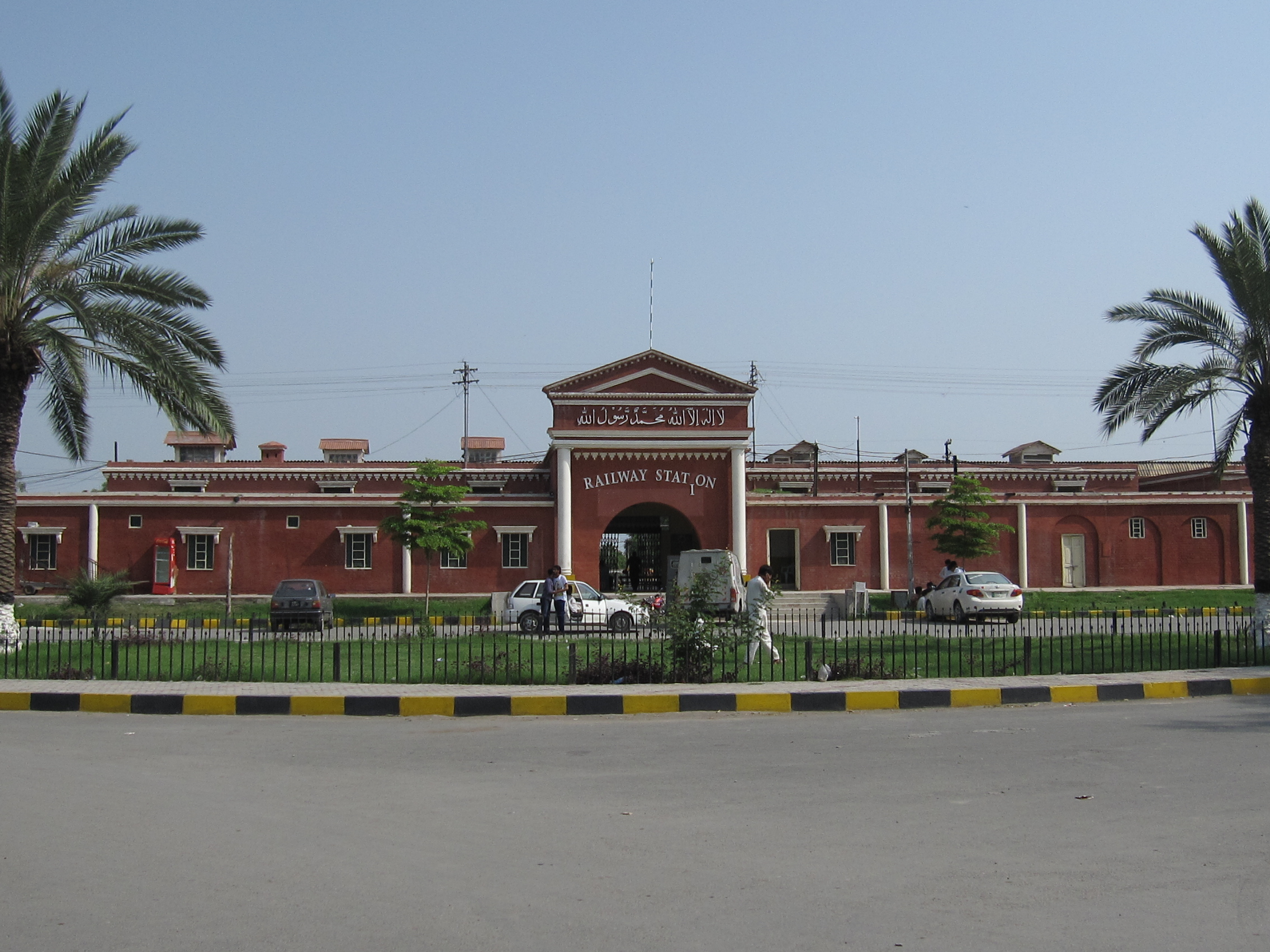 Faisalabad railway station This is a photo of a monument in Pakistan identified as the PB-U-10